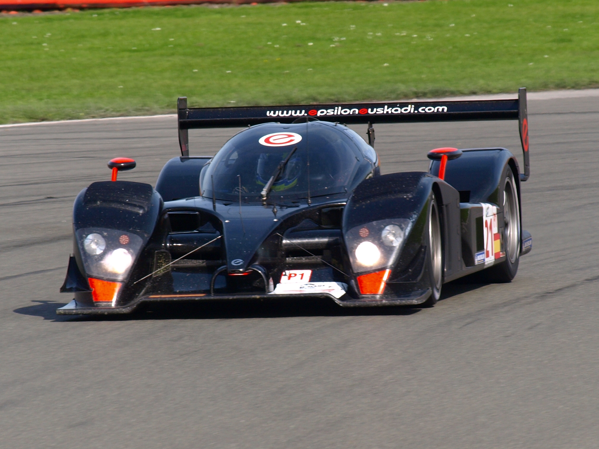 Shinji Nakano drivina an Epsilon Euskadi's ee1-Judd at the 2008 1000km of Silverstone.